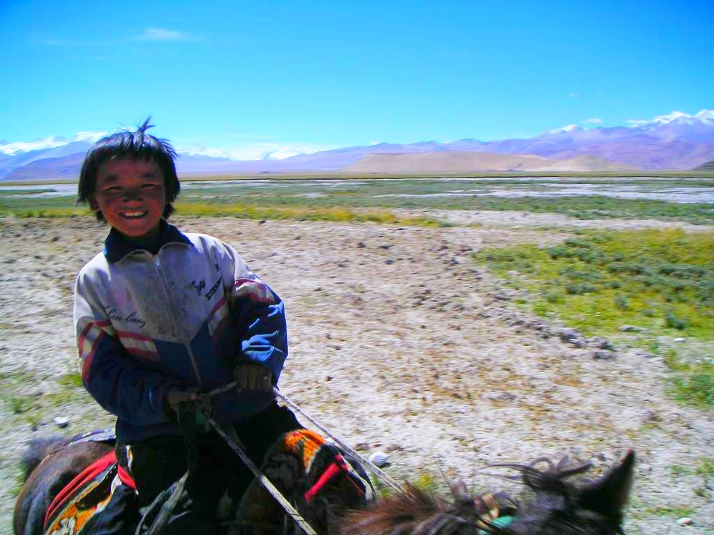 Young Tibetan equestrian. Close to Tingri Shekar